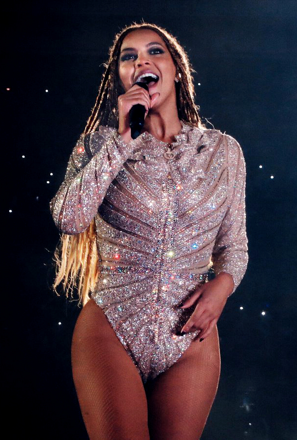 A cropped version of the previously uploaded file "FWT11.jpg", which features Beyoncé performing during her Formation World Tour in London.